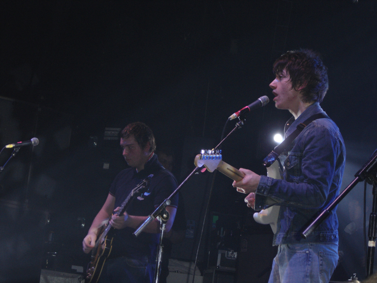 The Arctic Monkeys playing at the Newcastle AcademyArctic Monkeys